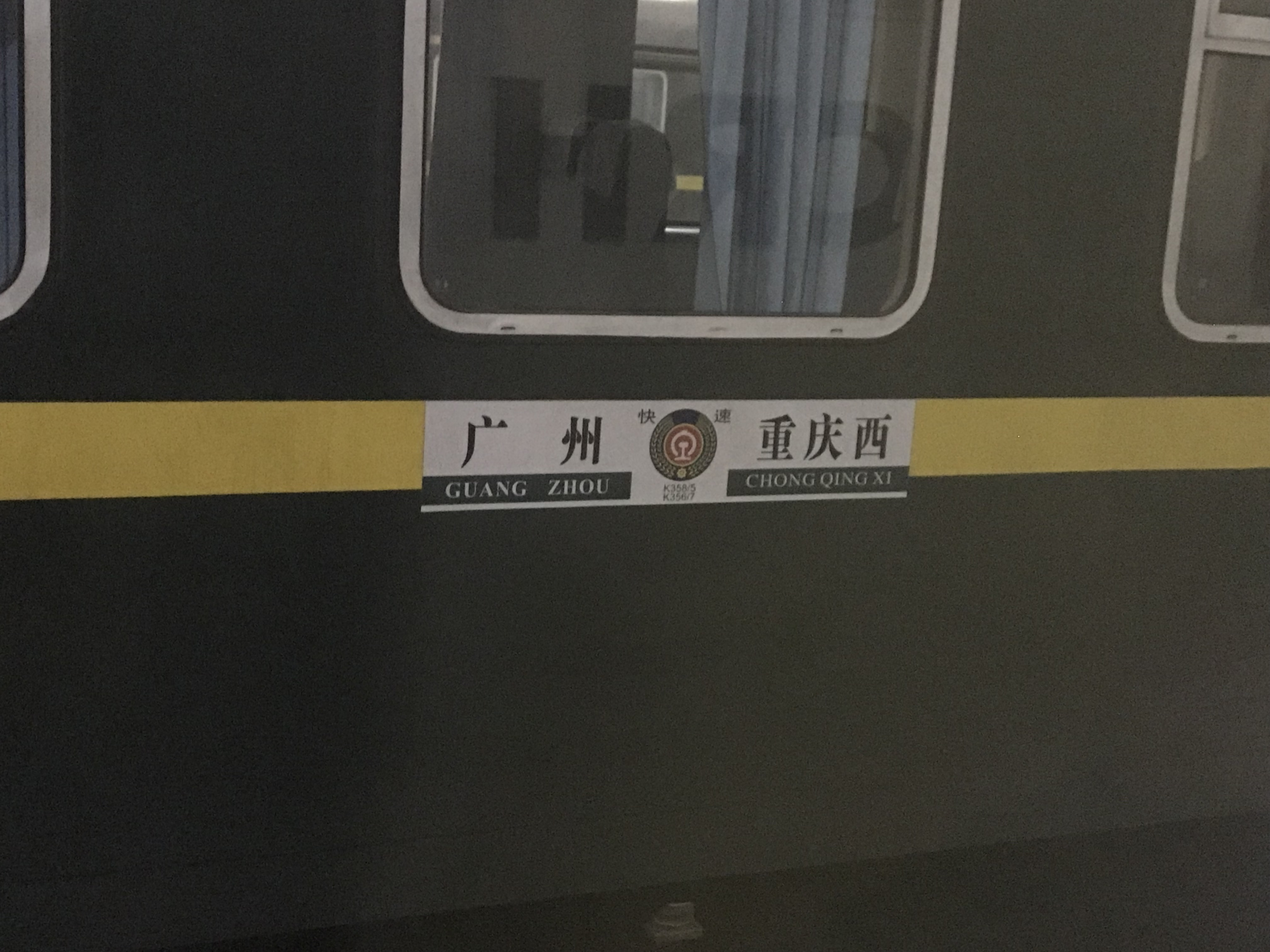 Taken at Chongqingxi Station